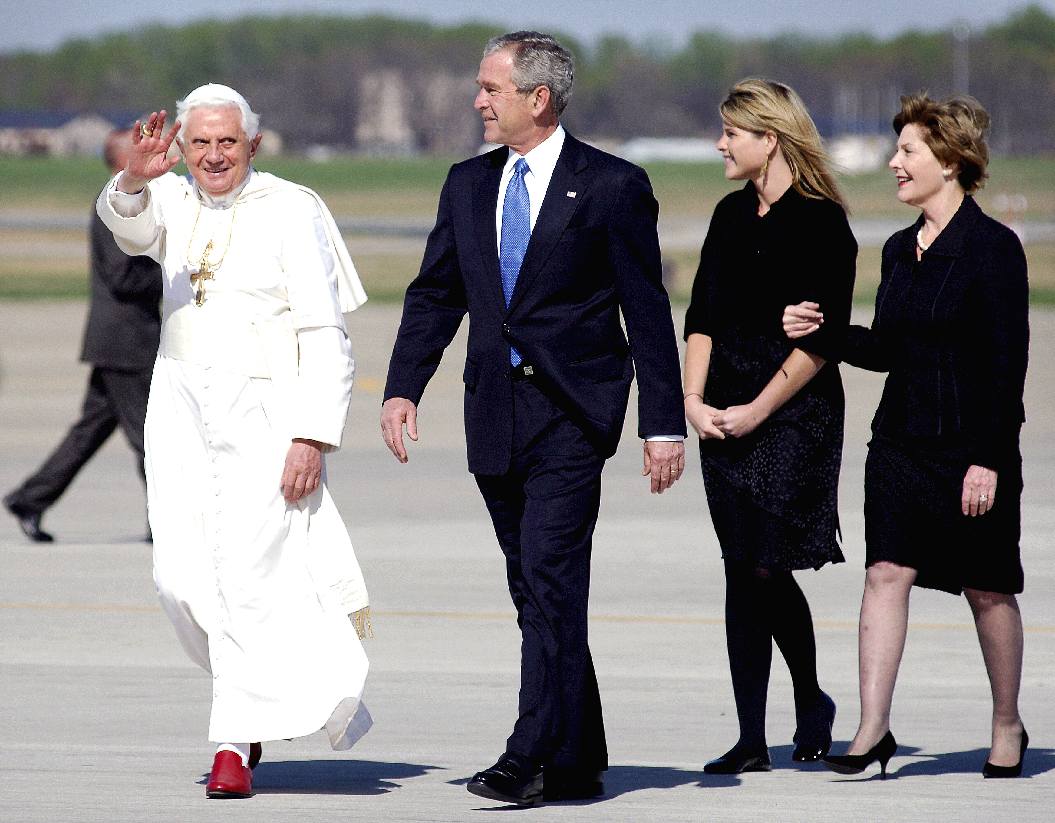 Pope Benedict XVI waves to the crowd after he is greeted by President George W. Bush, Laura Bush, right, and their daughter, Jenna Bush, on Andrews Air Force Base, Md., April 15, 2008, at the start of his six-day trip to the United States. The Pope will meet with Bush at the White House and celebrate Mass at the Nationals Park in Washington, D.C. U.S. Air Force photo by Tech. Sgt. Suzanne M. Day